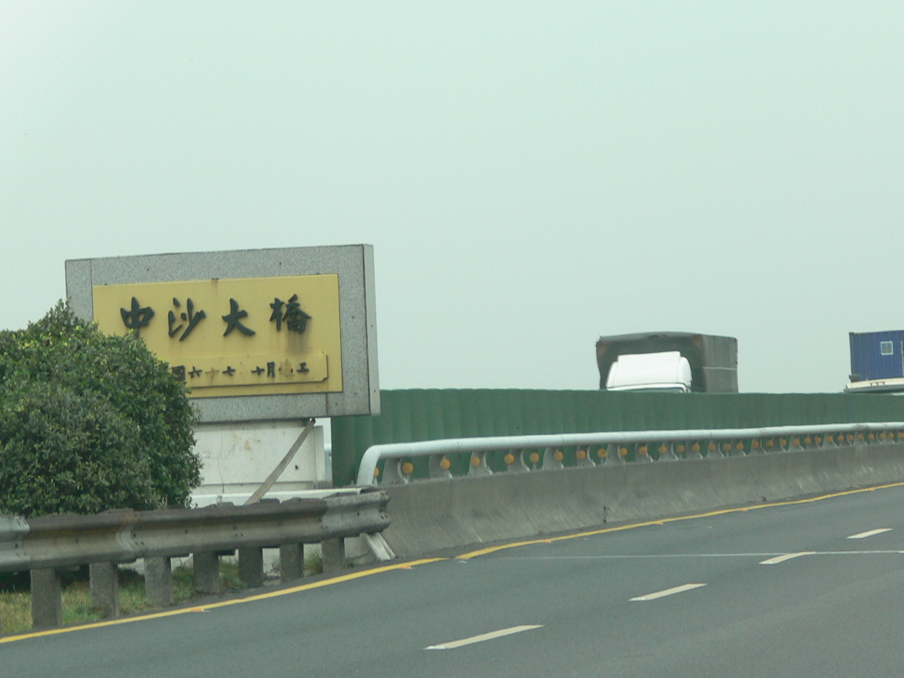 Zhong-sha bridge, Sun Yat-sen Freeway, Taiwan. Photo taken in Changhua County.